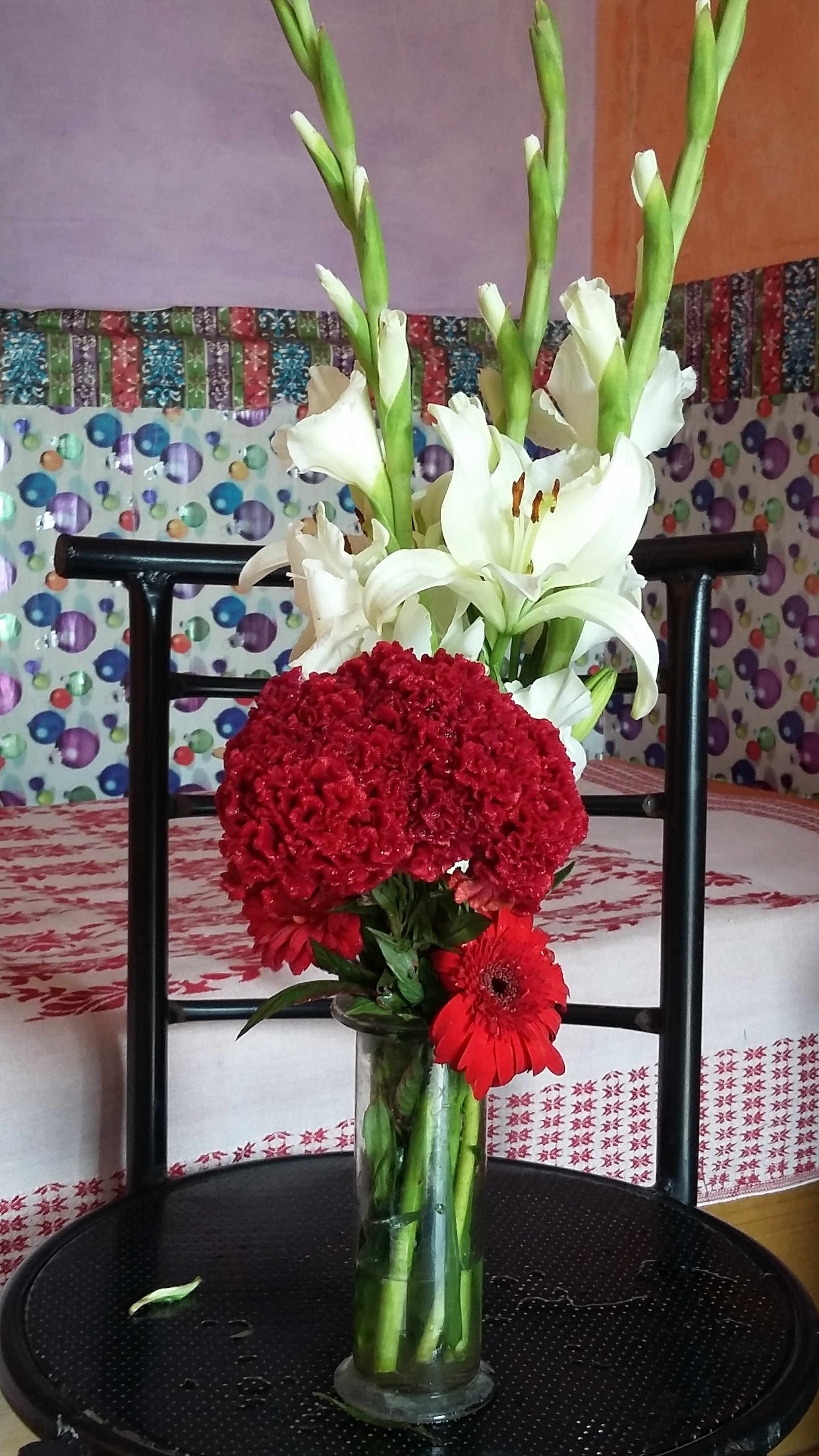 Flower bouquet ਪੰਜਾਬੀ: ਗੁਲਦਸਤਾ